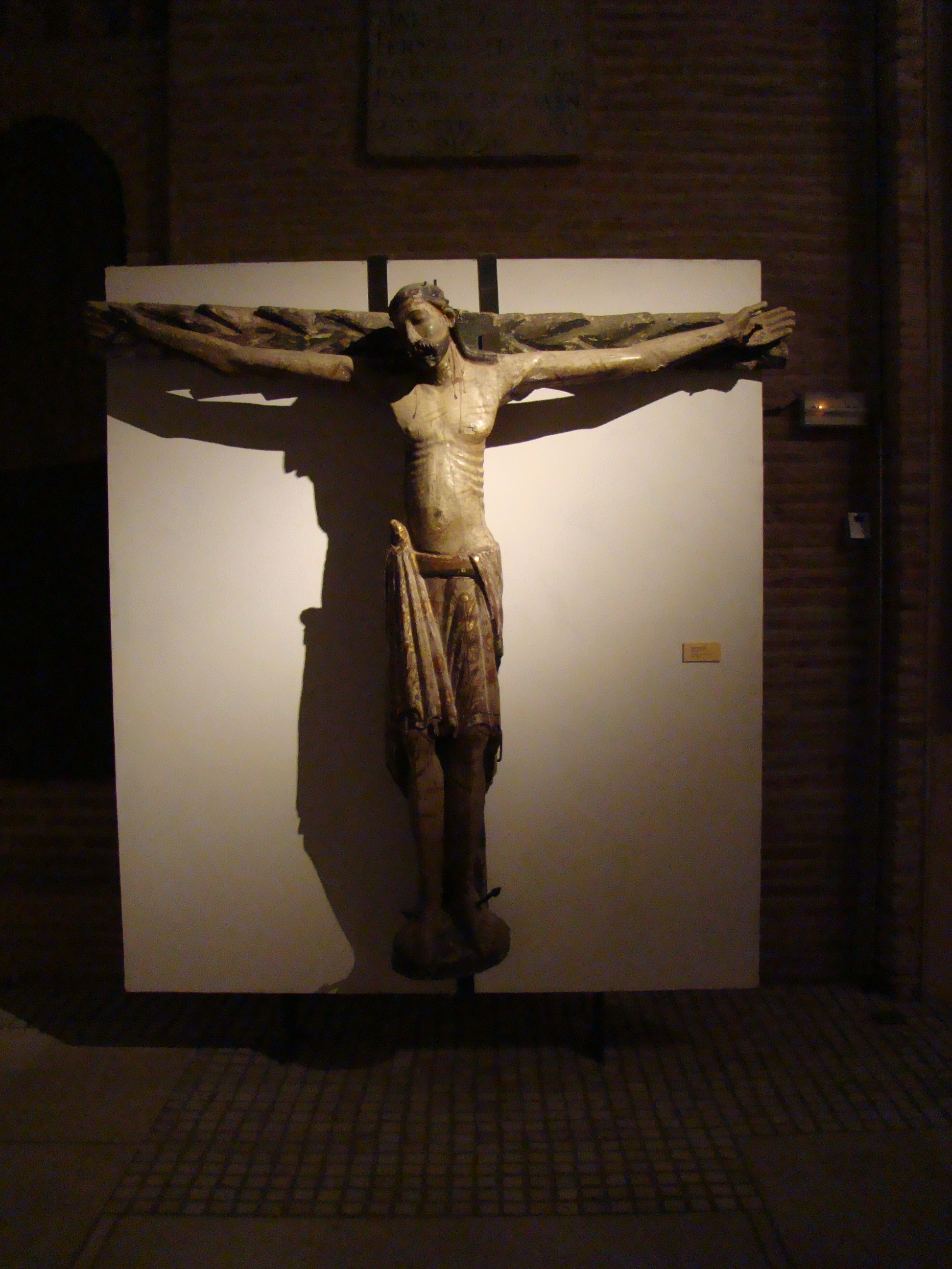 Romanesque-mudejar church of San Salvador de Toro, Zamora (Spain). 13th century Christ, from the church of Nuestra Señora del Canto (Toro). It is kept in the museum of the church of San Salvador de Toro.